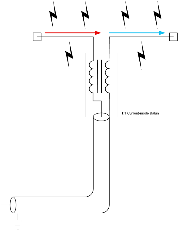 This diagram shows a dipole driven via a broad band balun. Replaces an earlier hand drawn diagram. Created by Konrad Roeder 2005. Released to Public Domain.